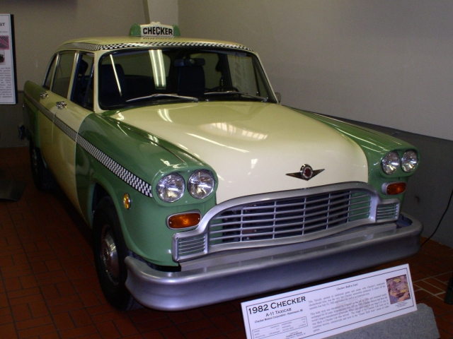 This 1982 Checker A-11 Taxicab, painted in traditional green and cream with trademark checkerboard trim, was the very last Checker automobile produced. It rolled off Checker's Kalamazoo assembly line on July 12, 1982. It now resides at the Gilmore Car Museum in Hickory Corners, Michigan. Photographed 2 September 2007 by Kevin S. Forsyth.